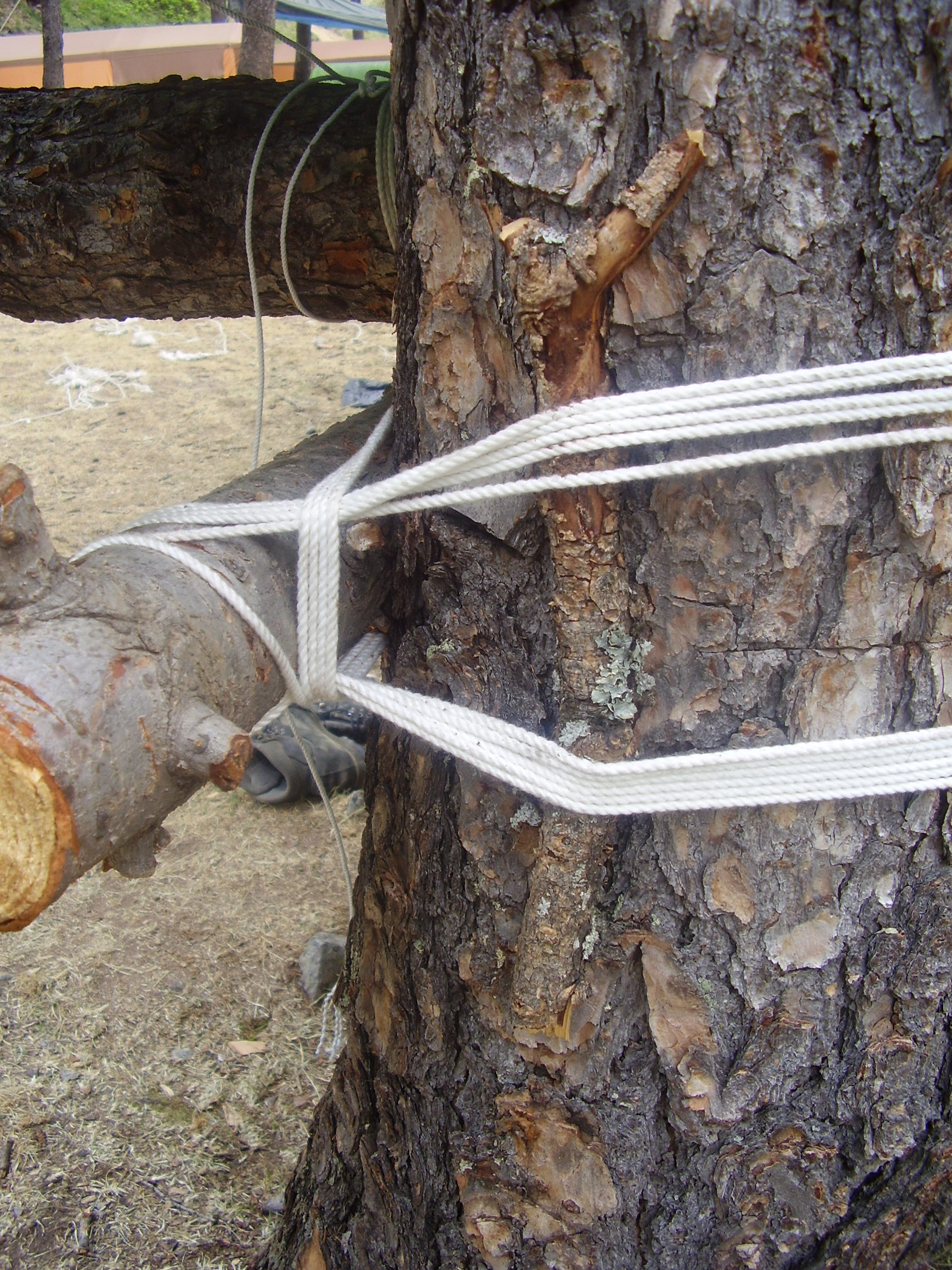 Square lashing with piece of wood